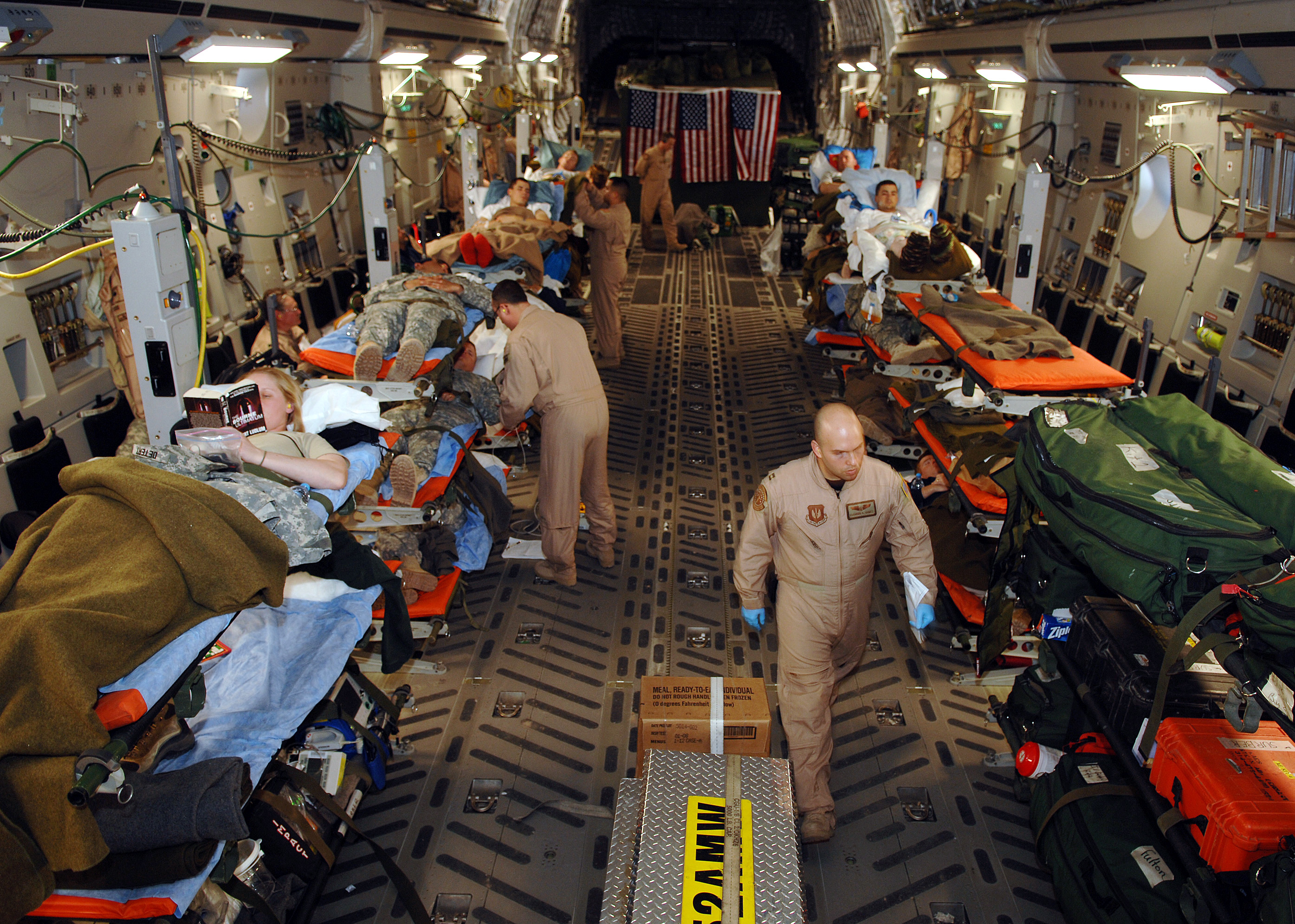 US Air Force Expeditionary Aeromedical Evacuation Squadron members monitor patients during a C-17 aero-medical evacuation mission from Balad Air Base, Iraq, to Ramstein Air Base, Germany. This C-17 Globemaster III is equipped to perform medical evacuation.